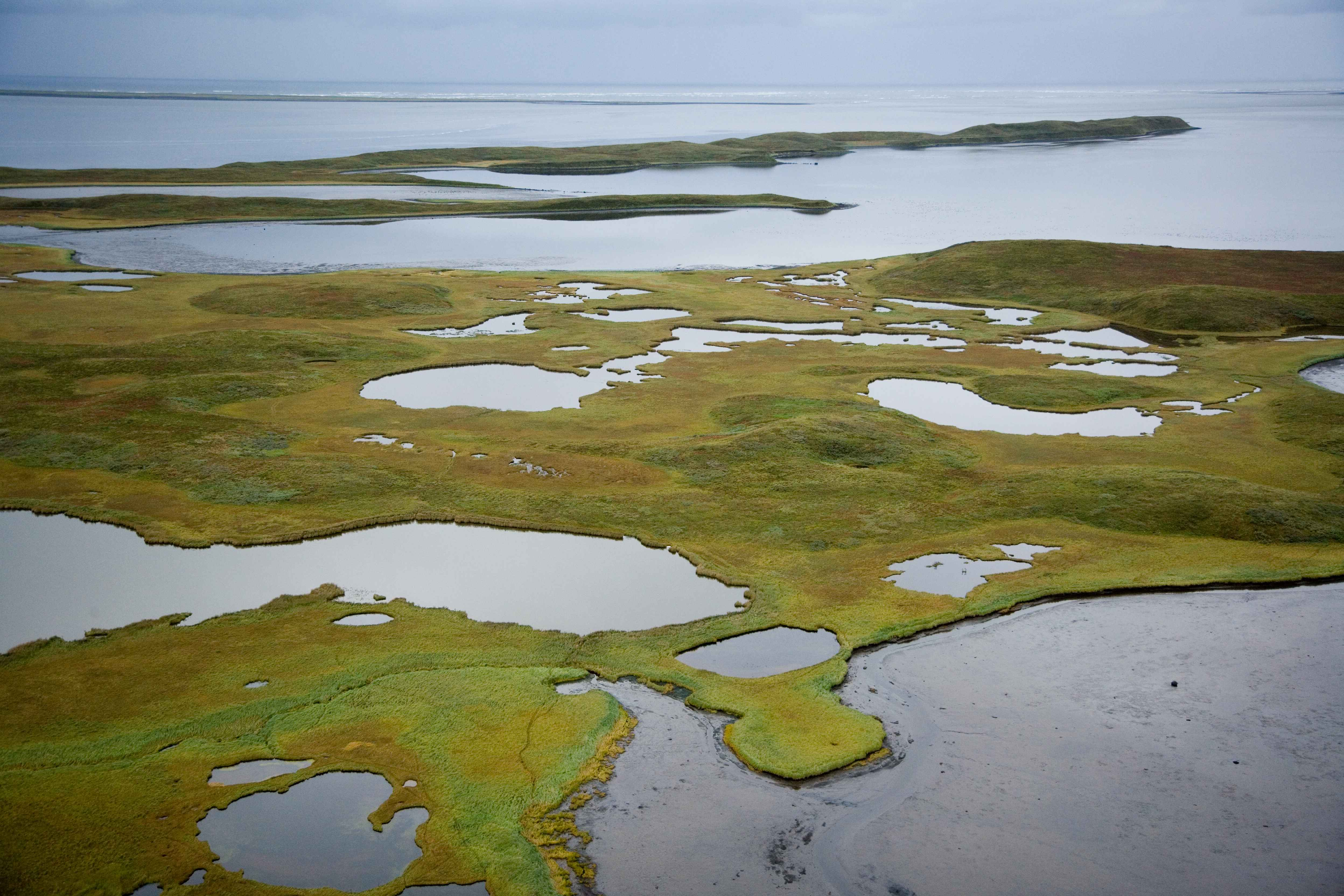 Image title: Scenics coastal waters and landmass Image from Public domain images website